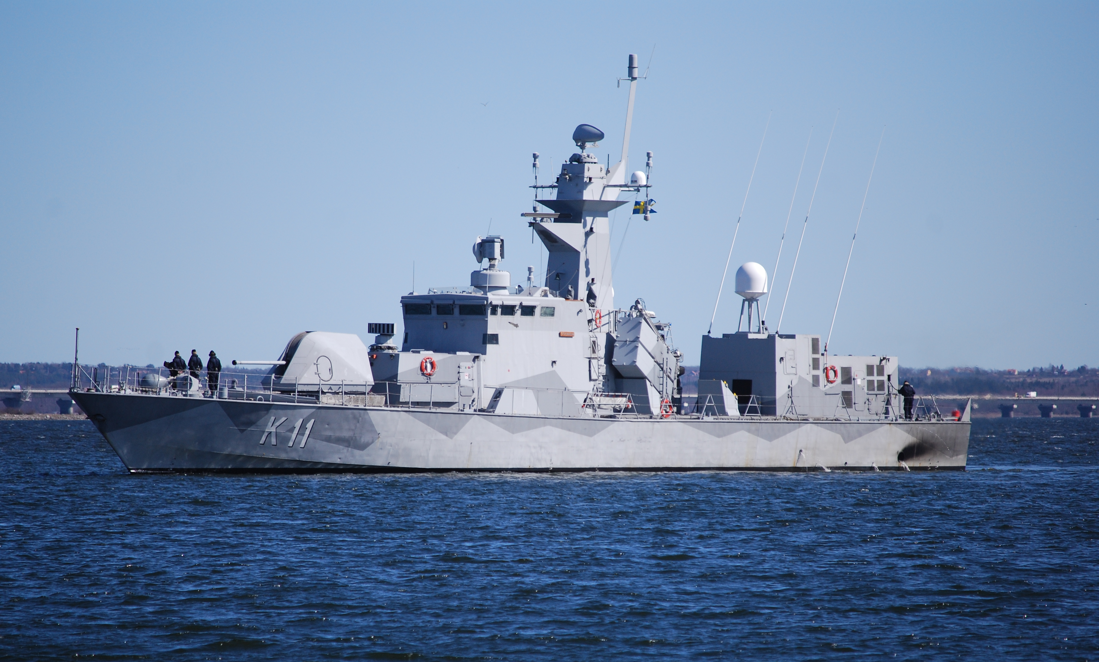 Swedish corvette HMS Stockholm in Kalmar.